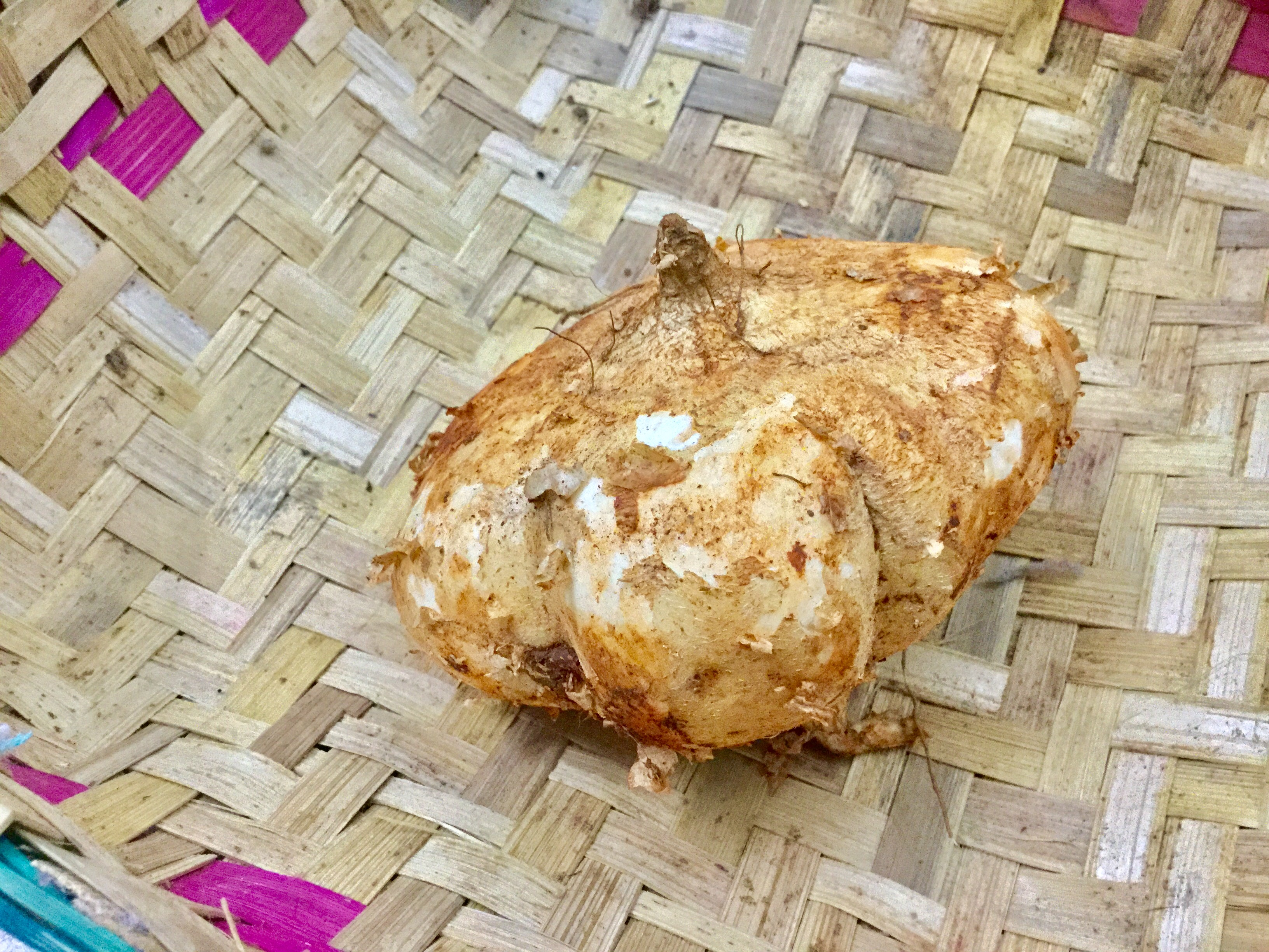 The sweet edible root, Tapioca. ଓଡ଼ିଆ: ଶାକର କନ୍ଦ ।